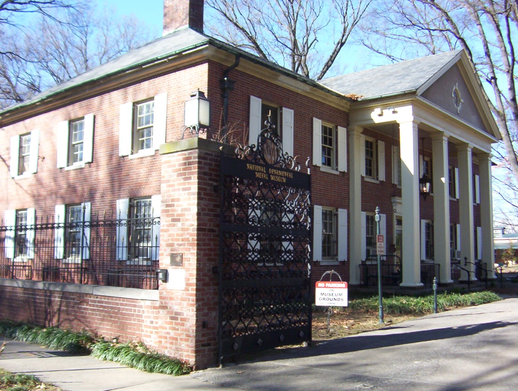 National Ornamantal Metal Museum in Memphis, Tennessee. (Jan. 2008) Photo made by: Thomas R Machnitzki I made the photo myself, feel free to use it.